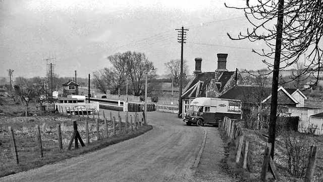 Bedwyn Station. View eastward, towards Newbury and Reading; Paddington - Reading - Taunton etc. main line.